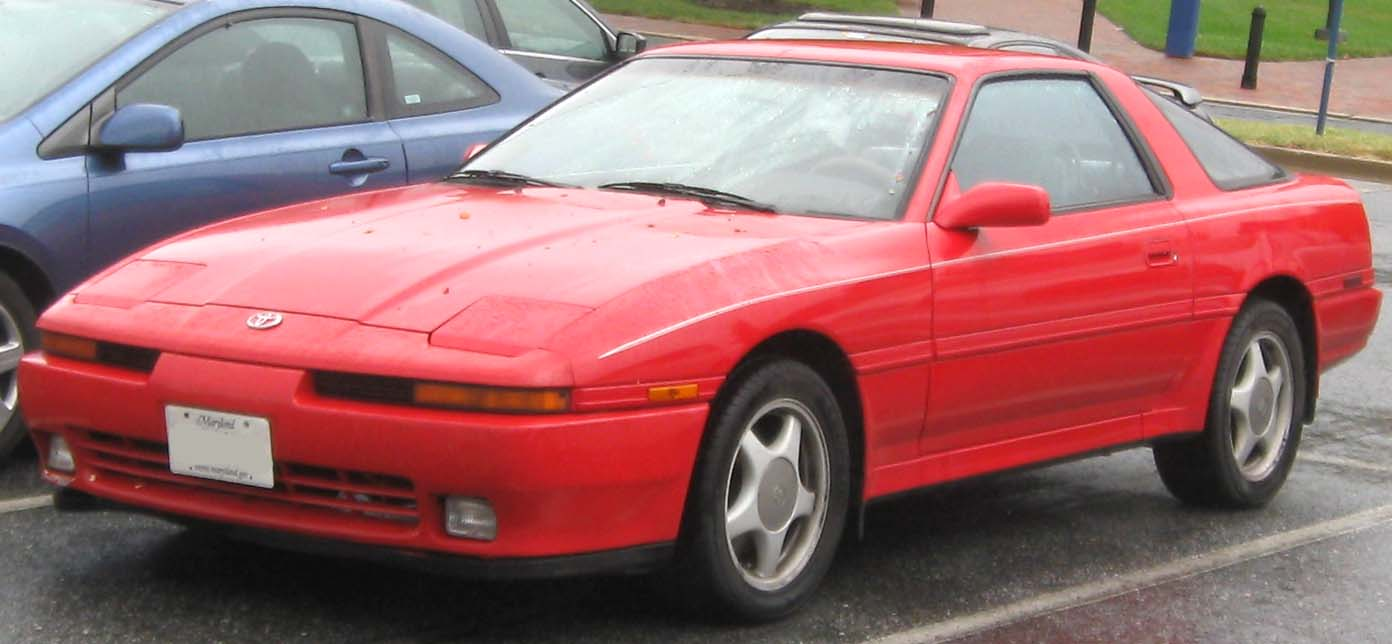 Toyota Supra photographed in College Park, Maryland, USA.